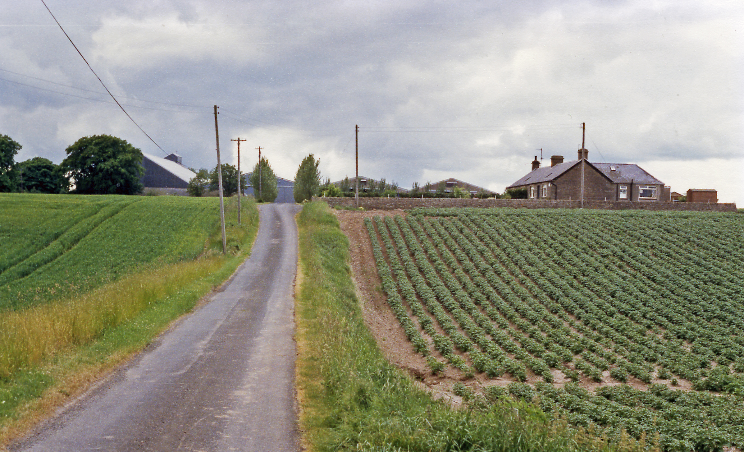 Site of Cuthlie station, 1988. View SW: fields and a farm where the ex-NBR Elliot Junction (to left) - Carmyllie (to right) Light Railway used to run. The station and line lost its passenger service from 2/12/29, its freight from 26/5/65.